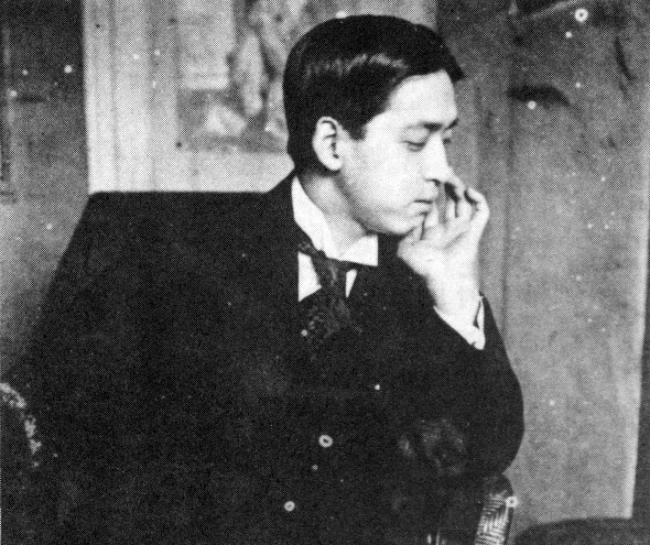 Photo of Umehara Ryusaburo